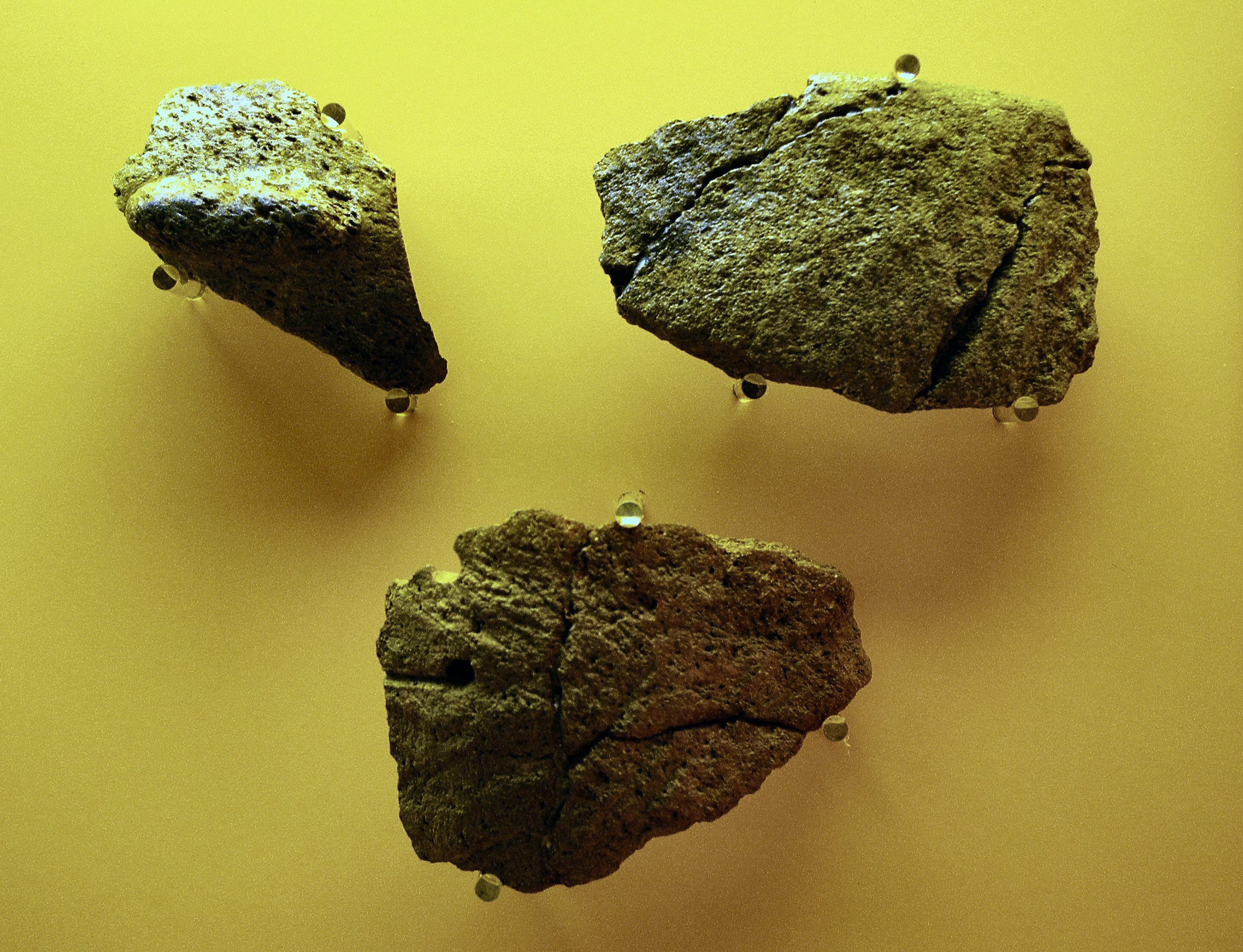 Archaic period (c. 8000–2000 B.C.) soapstone artifacts on display at the Great Smoky Mountains Heritage Center in Townsend, Tennessee, United States.